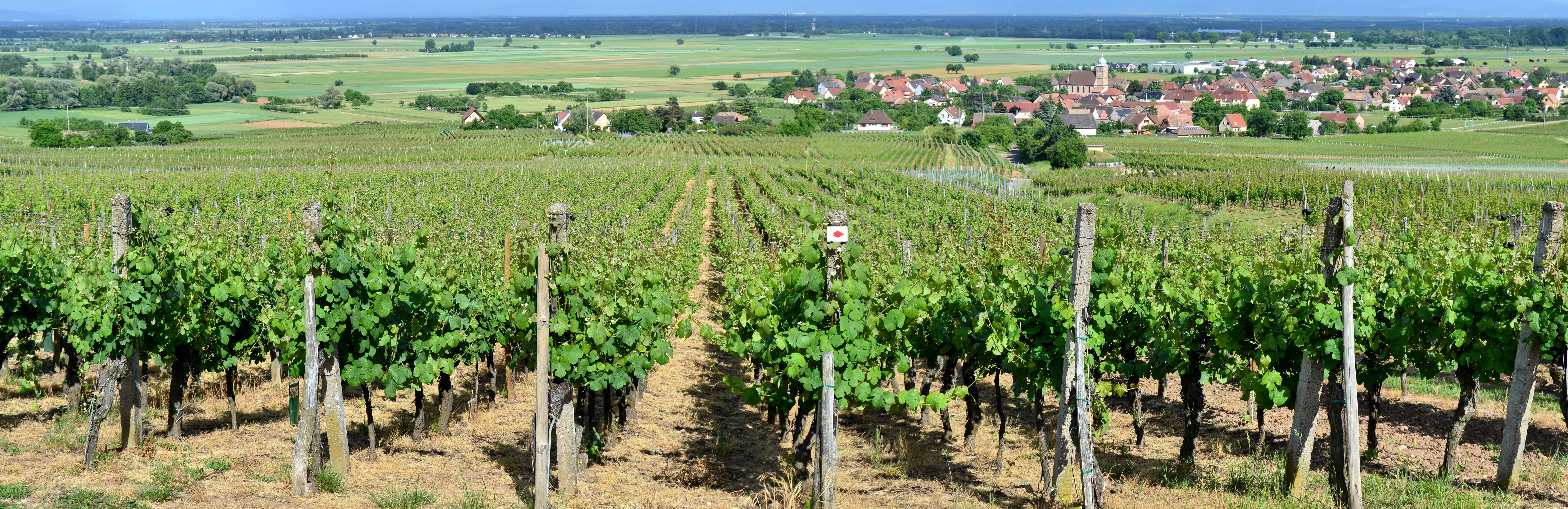 Spiegel vineyard and Bergholtz, Alsace, France